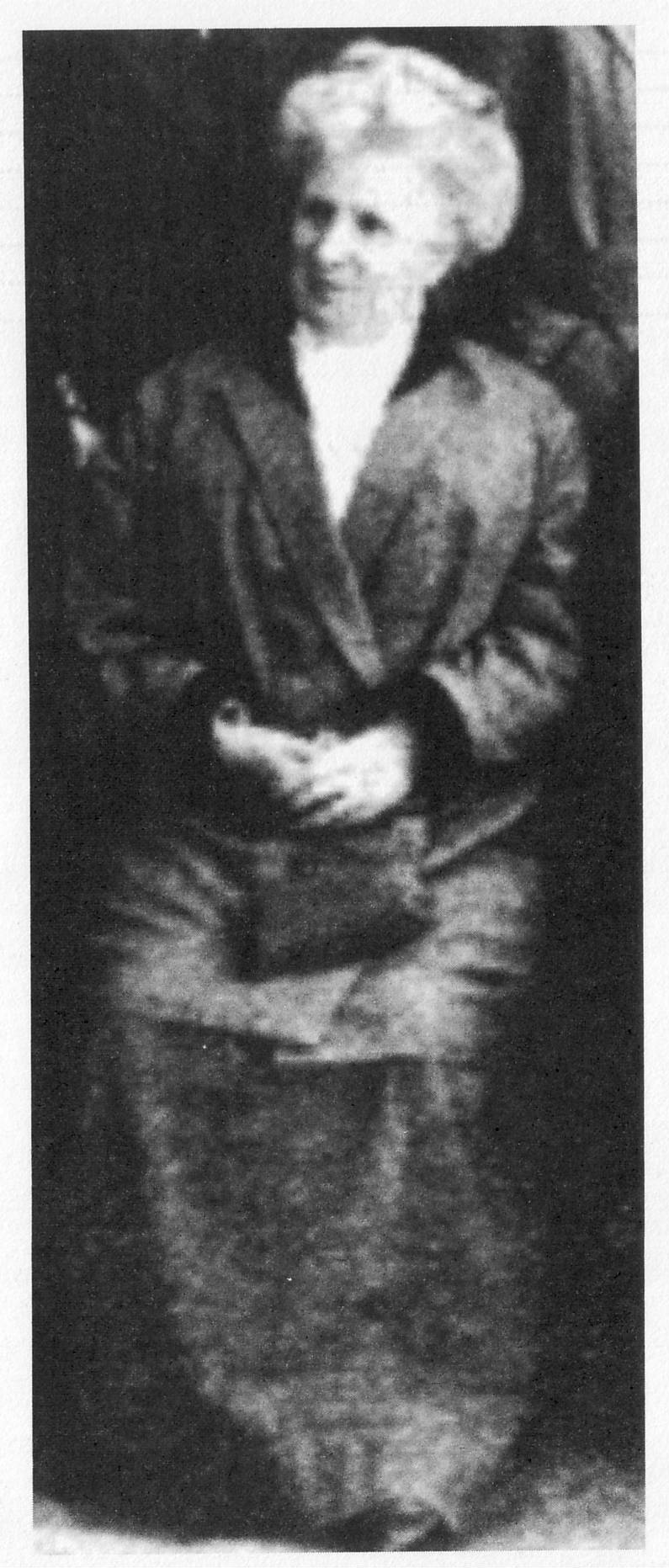 Photo by Concepción Saiz Otero, spanish teacher, educator and suffragist.